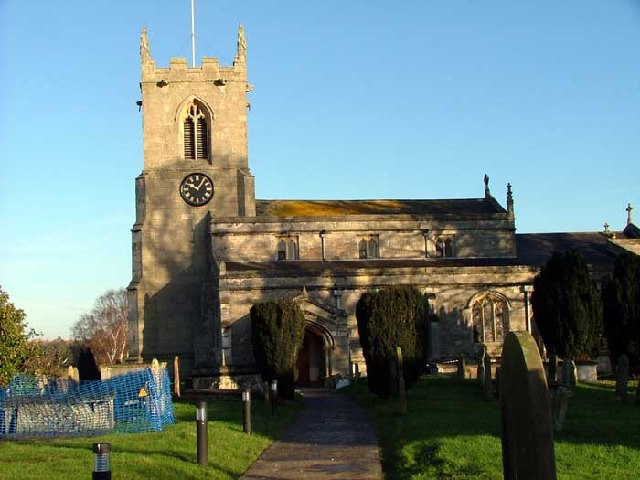 Nave and west tower of All Saints' parish church, Mattersey, Nottinghamshire, seen from the south